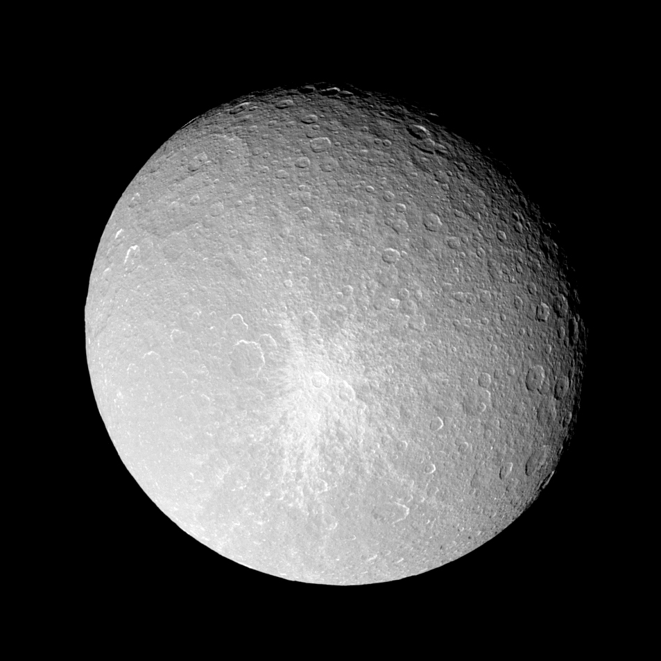 A bright fresh looking impact crater (Inktomi) on the leading hemisphere of Rhea. Its diameters is 48 km. It has an extensive ray system.